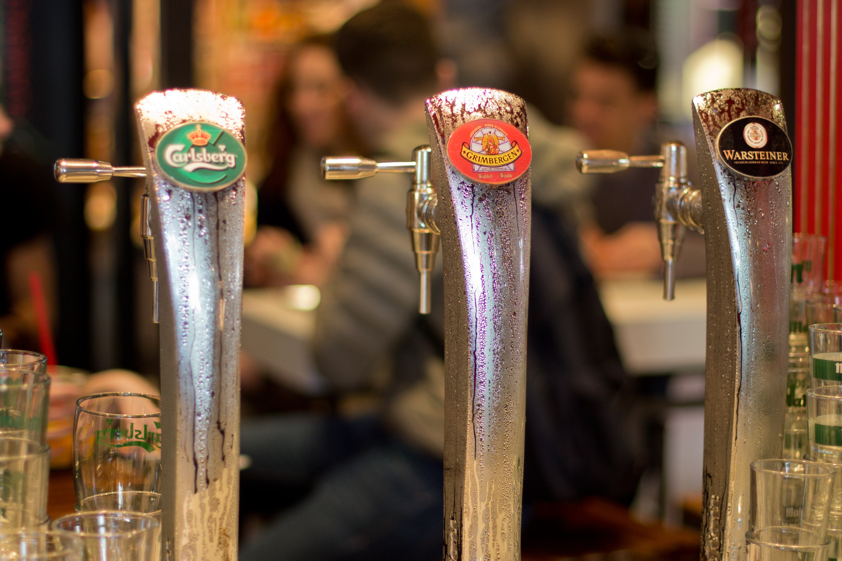 Beer taps (Carlsberg, Grimbergen and Warsteiner).